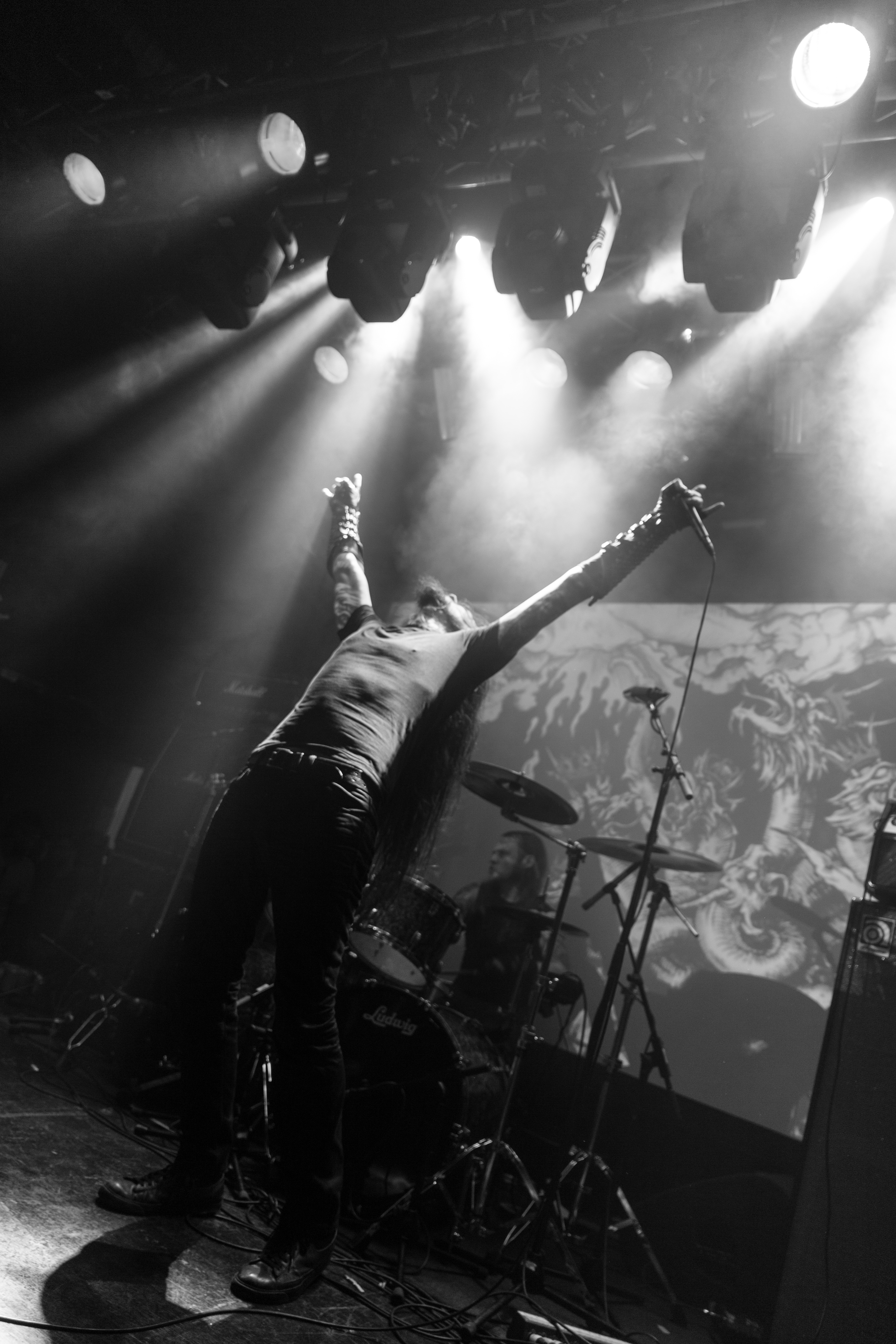 Goatwhore performing at Roadburn Festival, april 2015